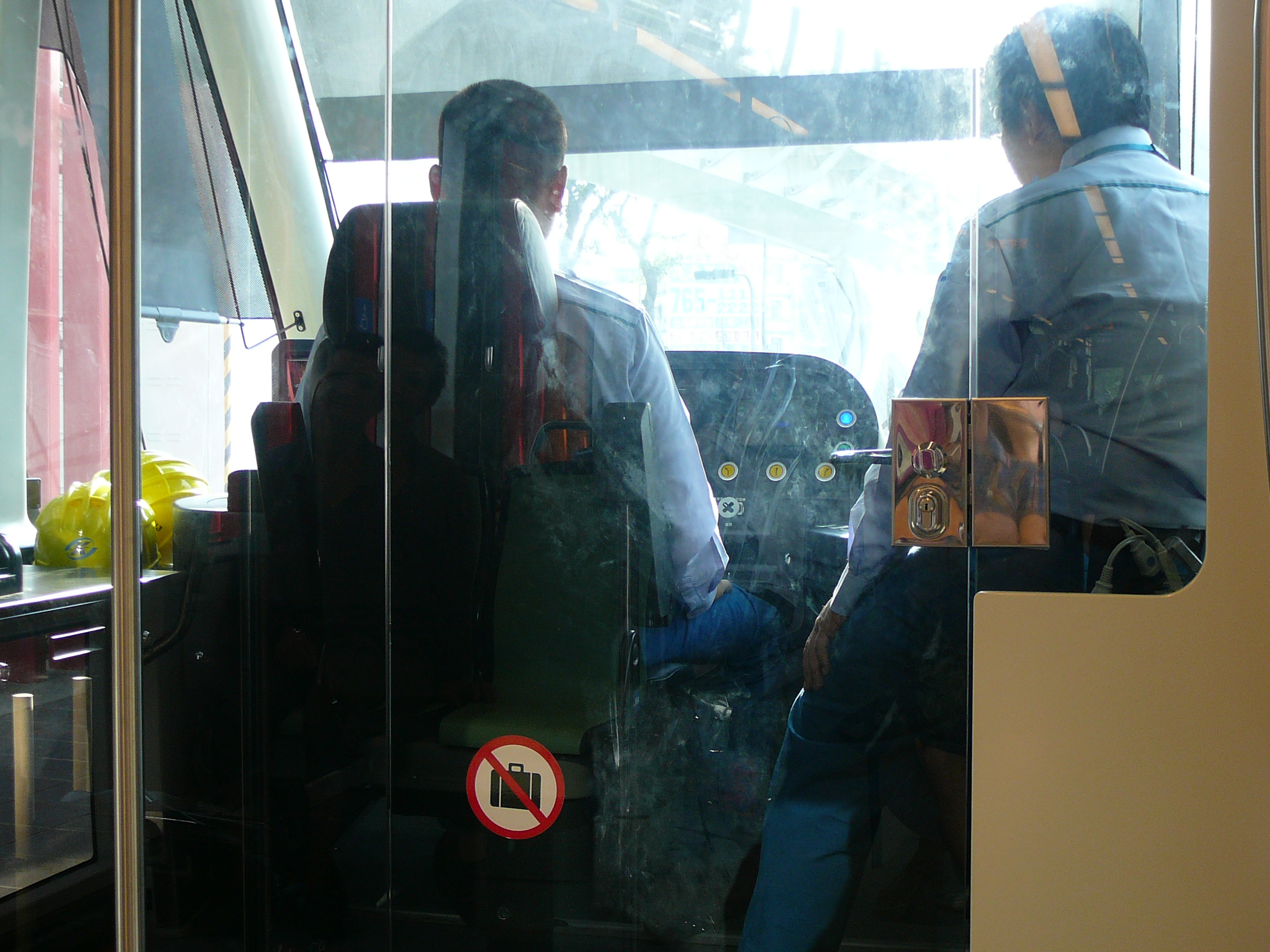 Kaohsiung LRT driver's cab